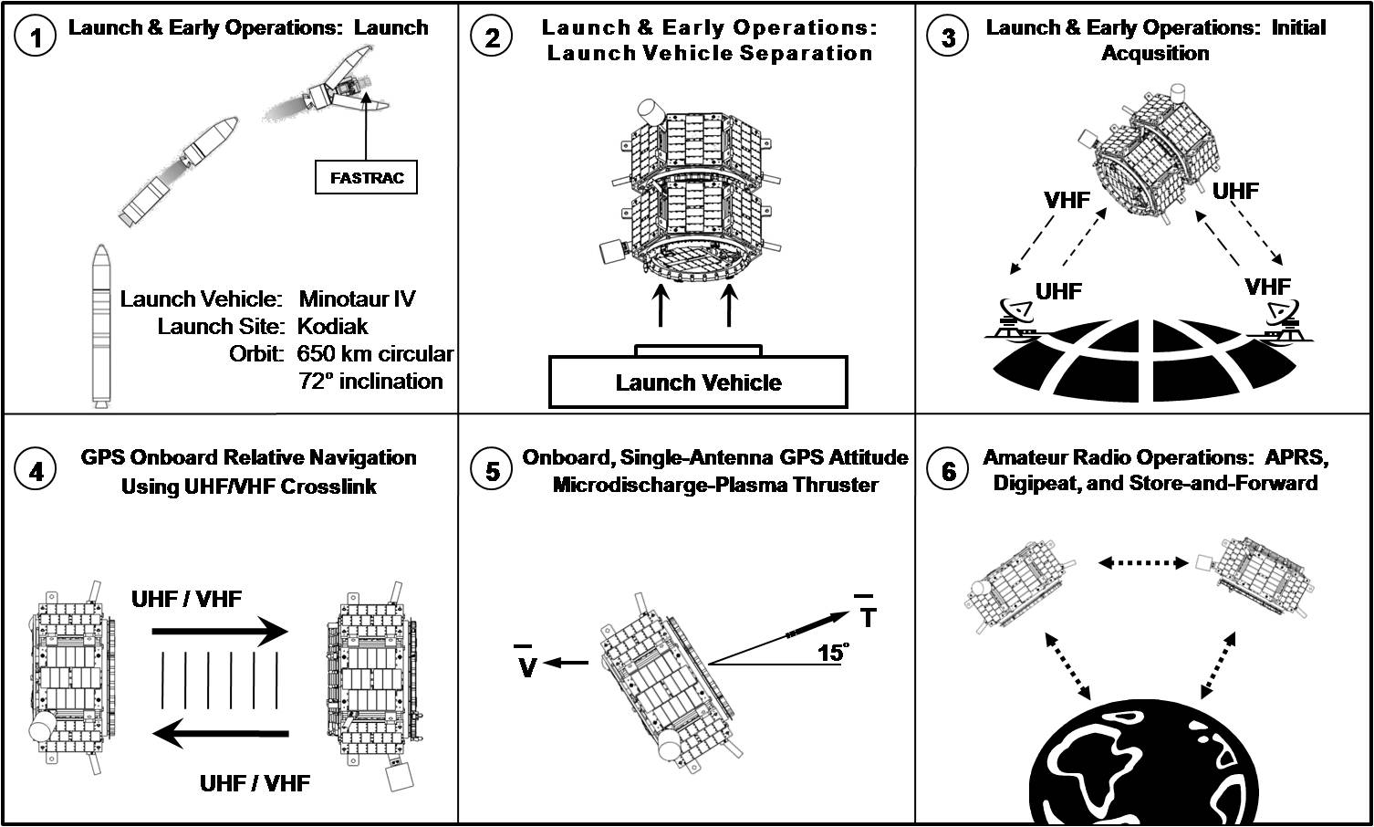 Mission Operation Phases of the FASTRAC Satellites